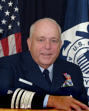 30th National Commodore of the United State Coast Guard Auxiliary